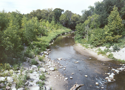 Photograph by Tim Kiser. The Turtle River in Turtle River State Park near Larimore in Grand Forks County, North Dakota, 22 August 2004. Category:Images of North Dakota